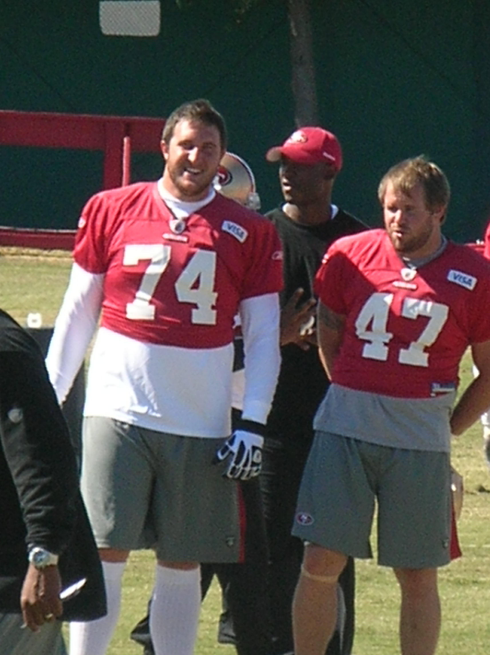 San Francisco 49ers tackle Joe Staley (left) and fulback Brit Miller at training camp in Santa Clara, California.